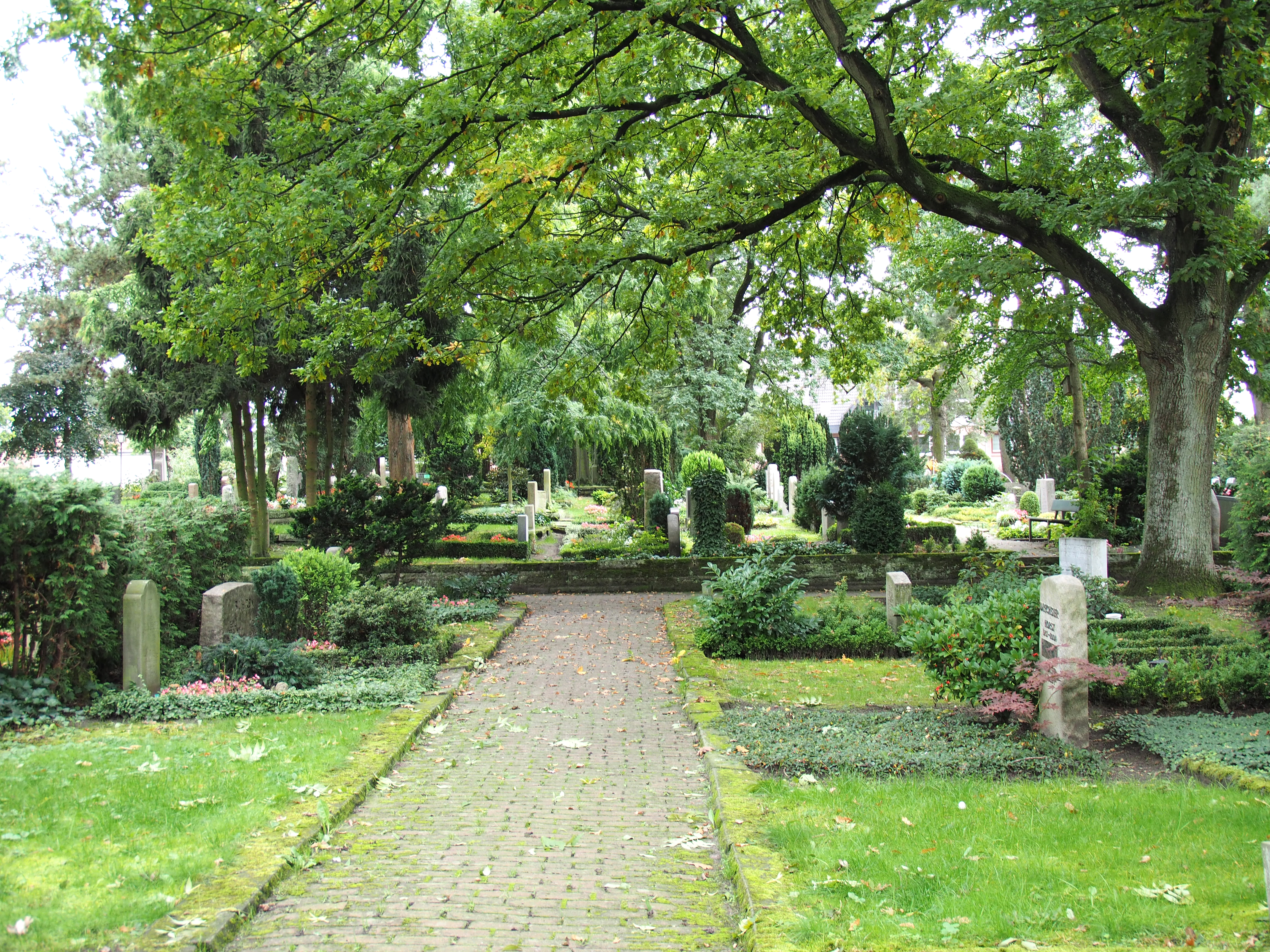 Neuenhäusen cemetery, town district Neuenhäusen, Celle, Lower Saxony, Germany